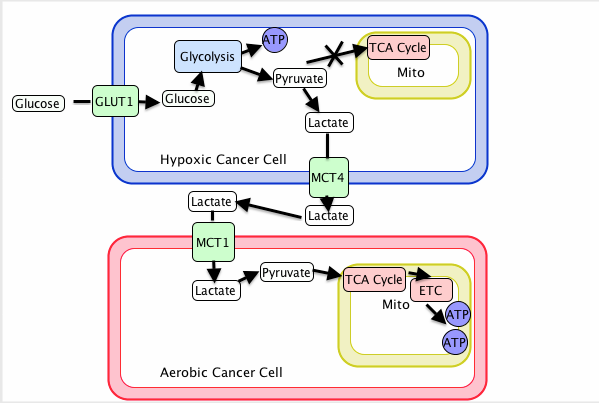 Metabolism symbiosis